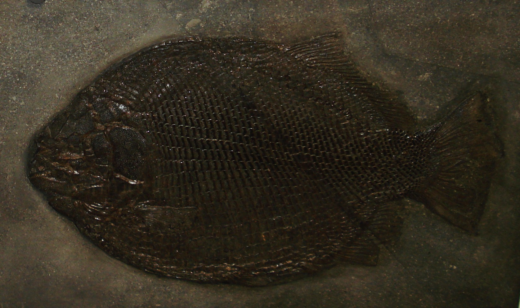 fossil of dapedium